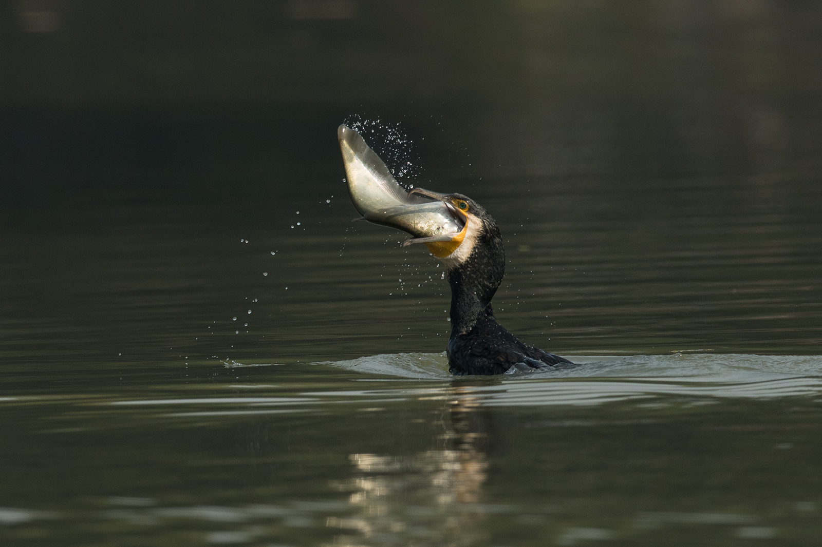 Greater cormorant trying to swallow Bronze featherback fish. from Keoladeo Ghana National park, Bharatpur